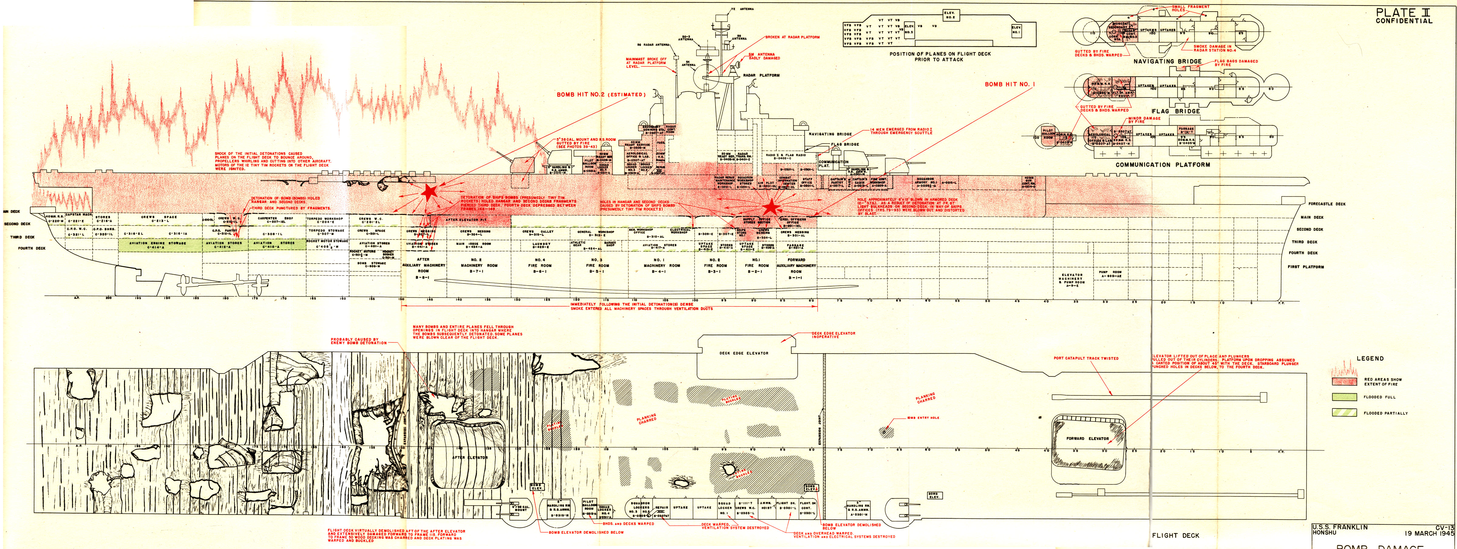 Chart showing the damage to the U.S. Navy aircraft carrier received during the attack on 19 March 1945.